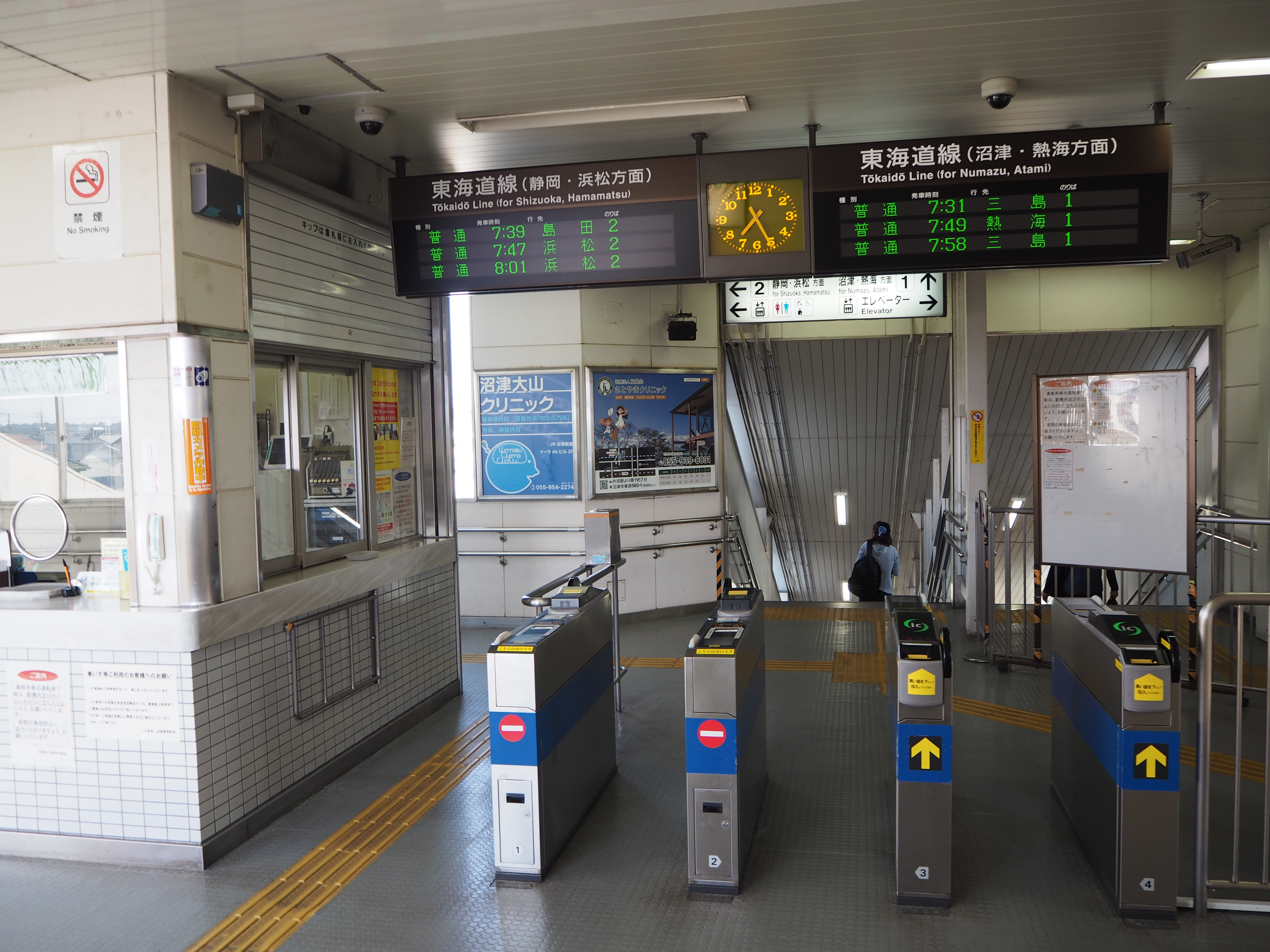 Ticket barriers of Katahama Station